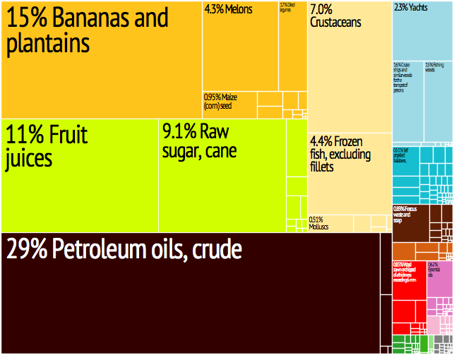 Treemap of export trade flow from Belize during 2010